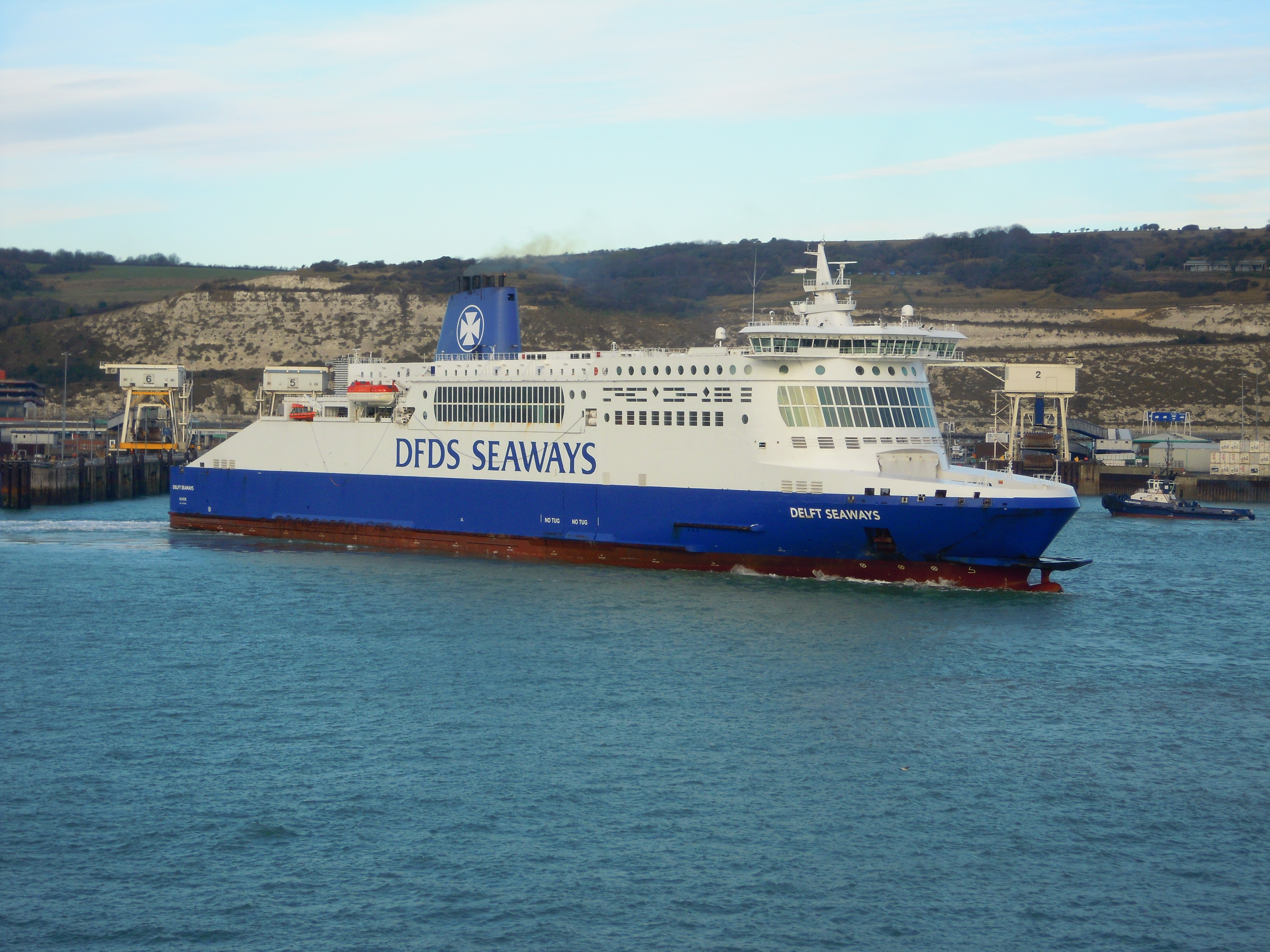 The Delft Seaways (Formally the Maersk Delft) approaches Dover ferry port, Kent, England